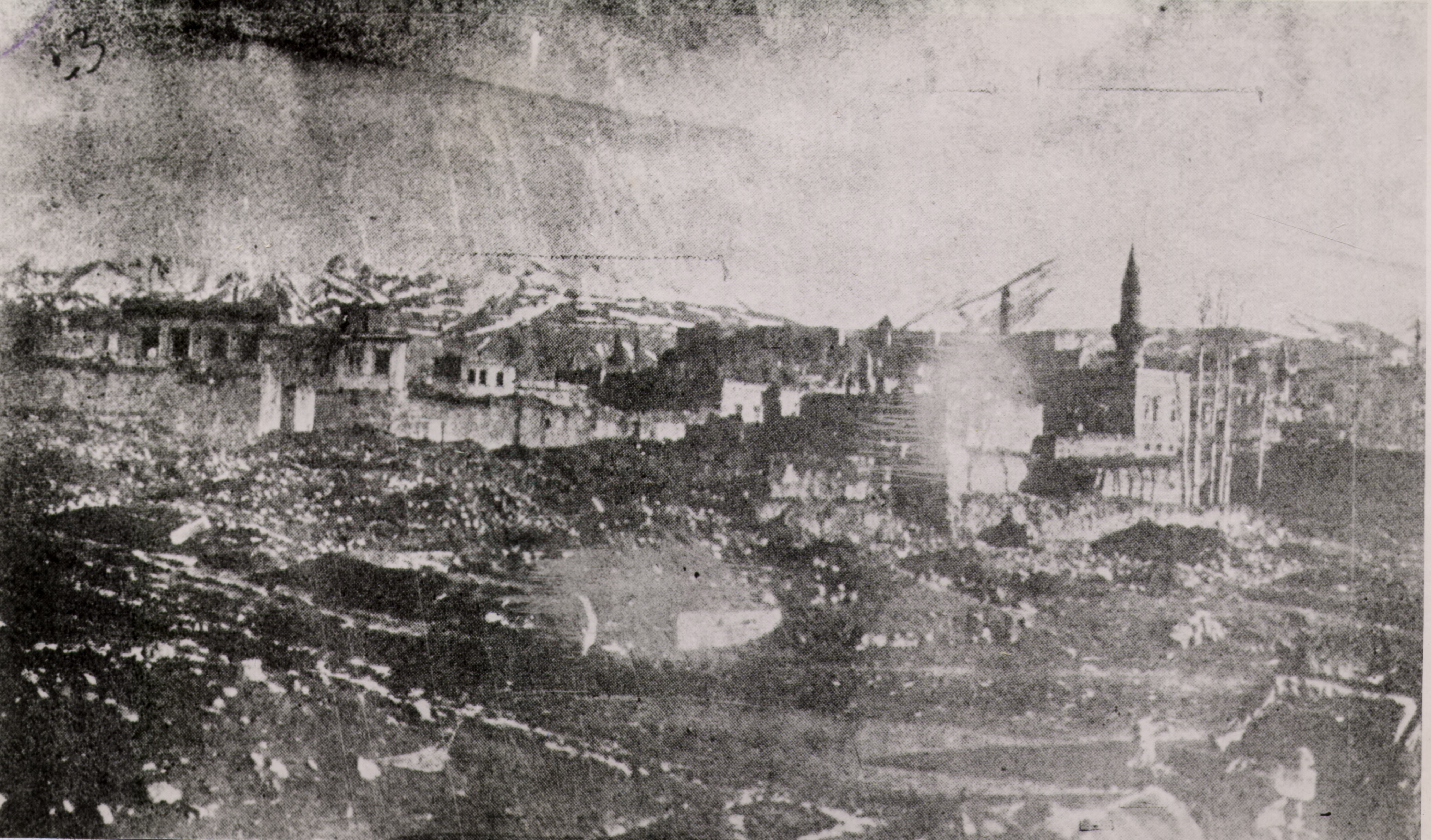 City of Erzurum in 1918 after the Armenian volunteer units left the region to battle against the Ottomans at the Battle of Sardarapat